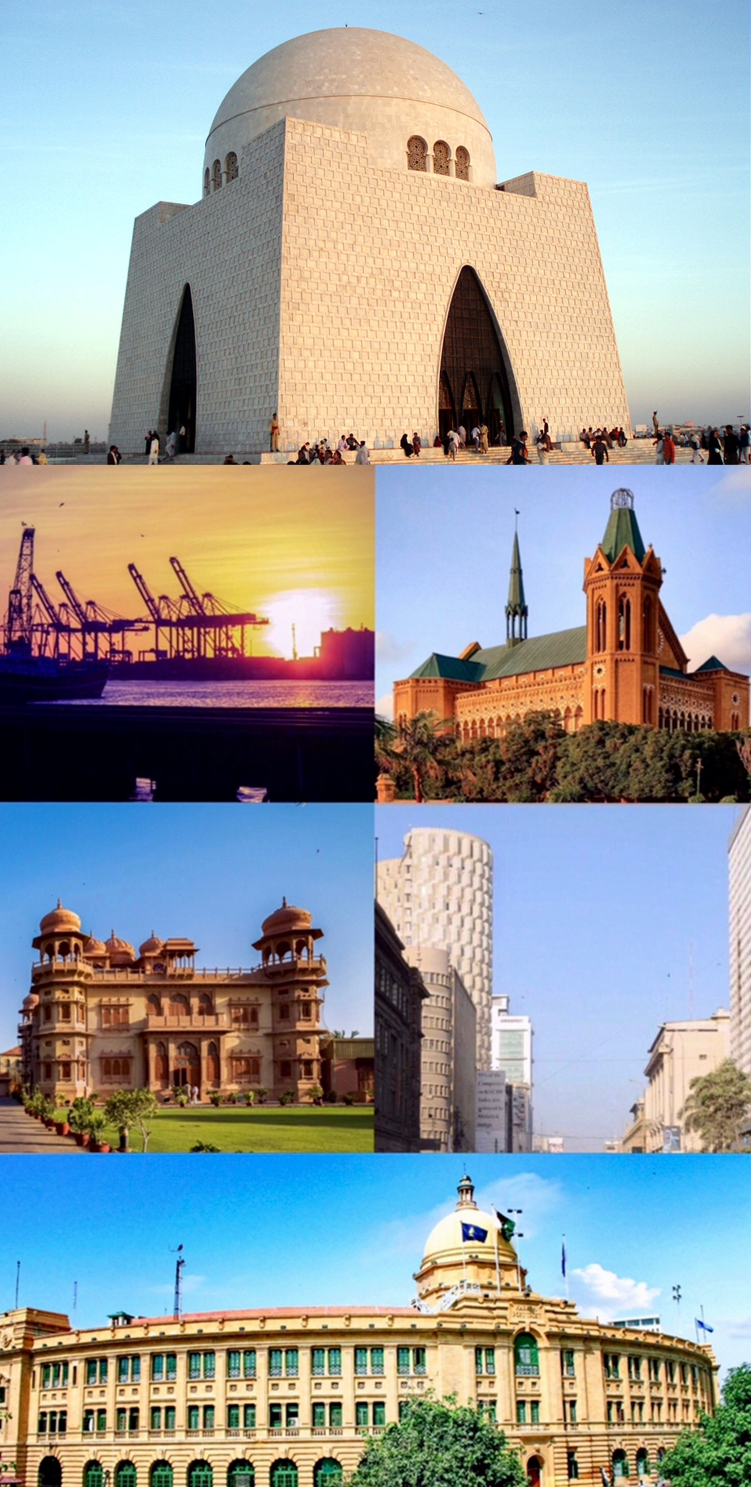 A montage of Karachi